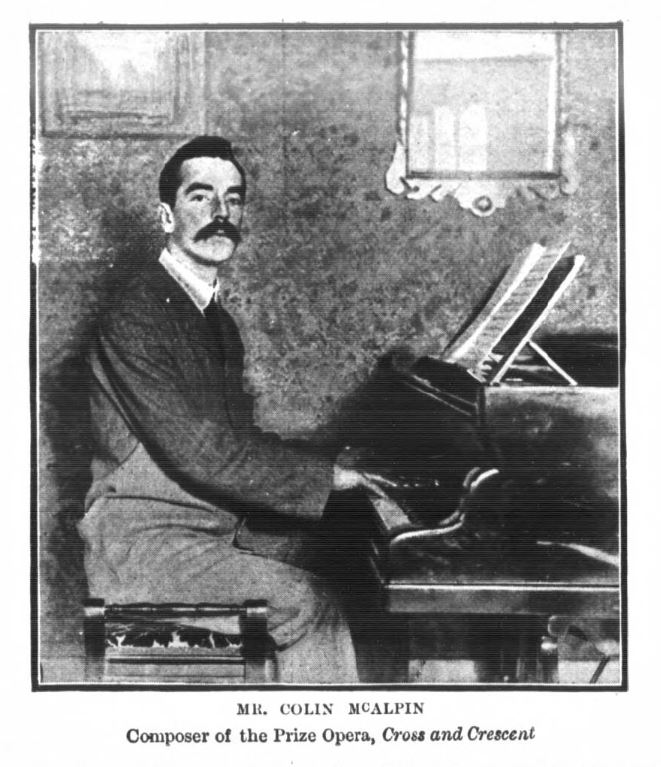 Photograph of Colin McAlpin at the piano, accompanying an article in "The Graphic" Magazine" about his new opera "The Cross and the Crescent", dated 3 October 1903#